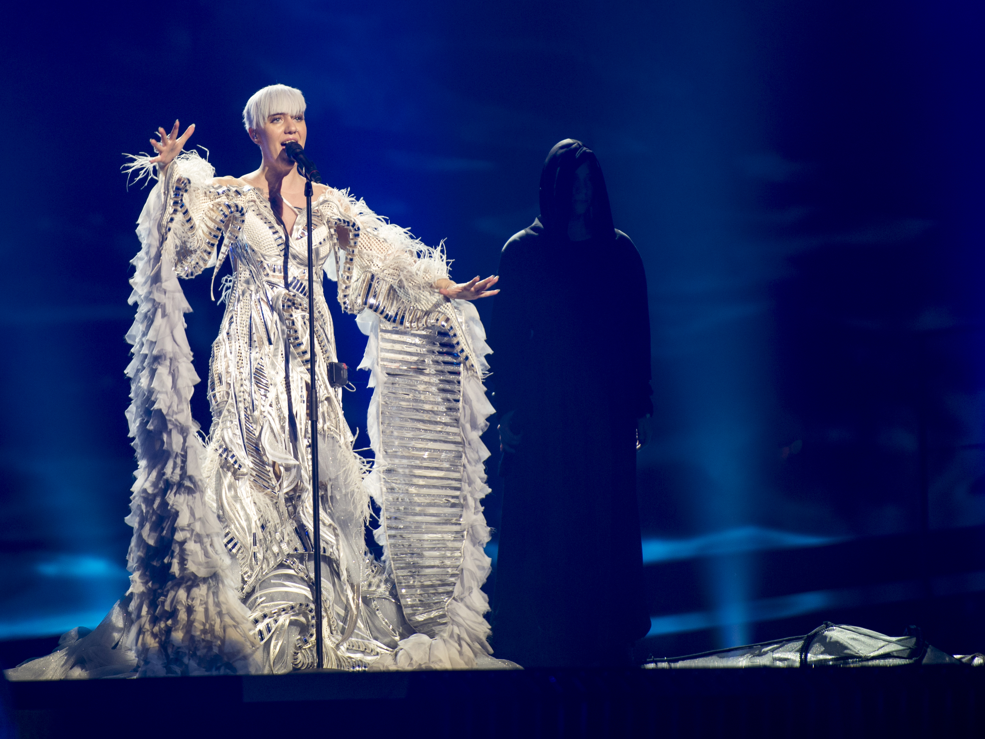 Nina Kraljić representing Croatia with the song "Lighthouse" during a rehearsal before the first semi final of the Eurovision Song Contest 2016 in Stockholm. (Help translate this text)